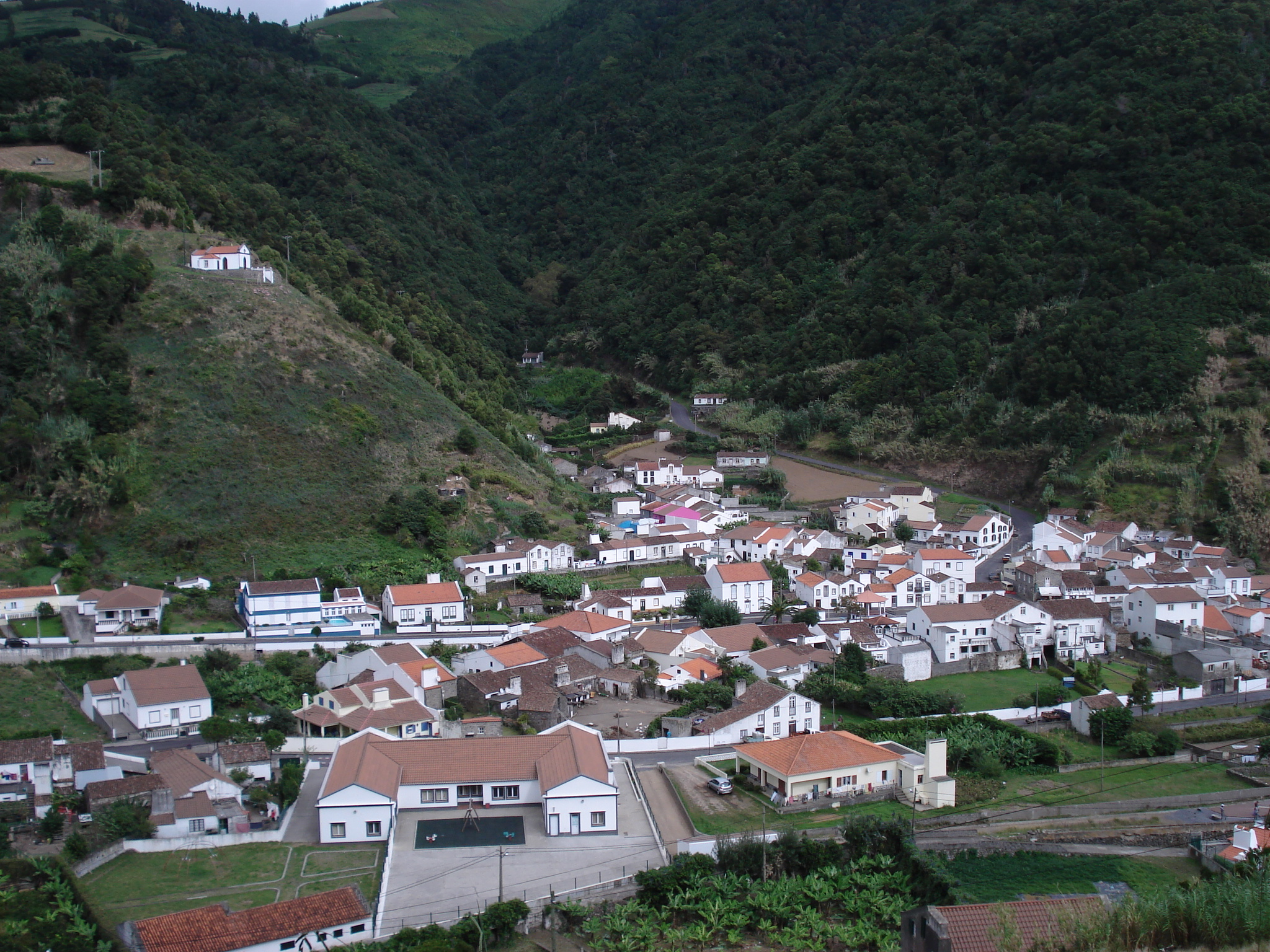 Center of Faial da Terra, as seen while descending into the river-valley, municipality of Povoação, São Miguel Island, Azores